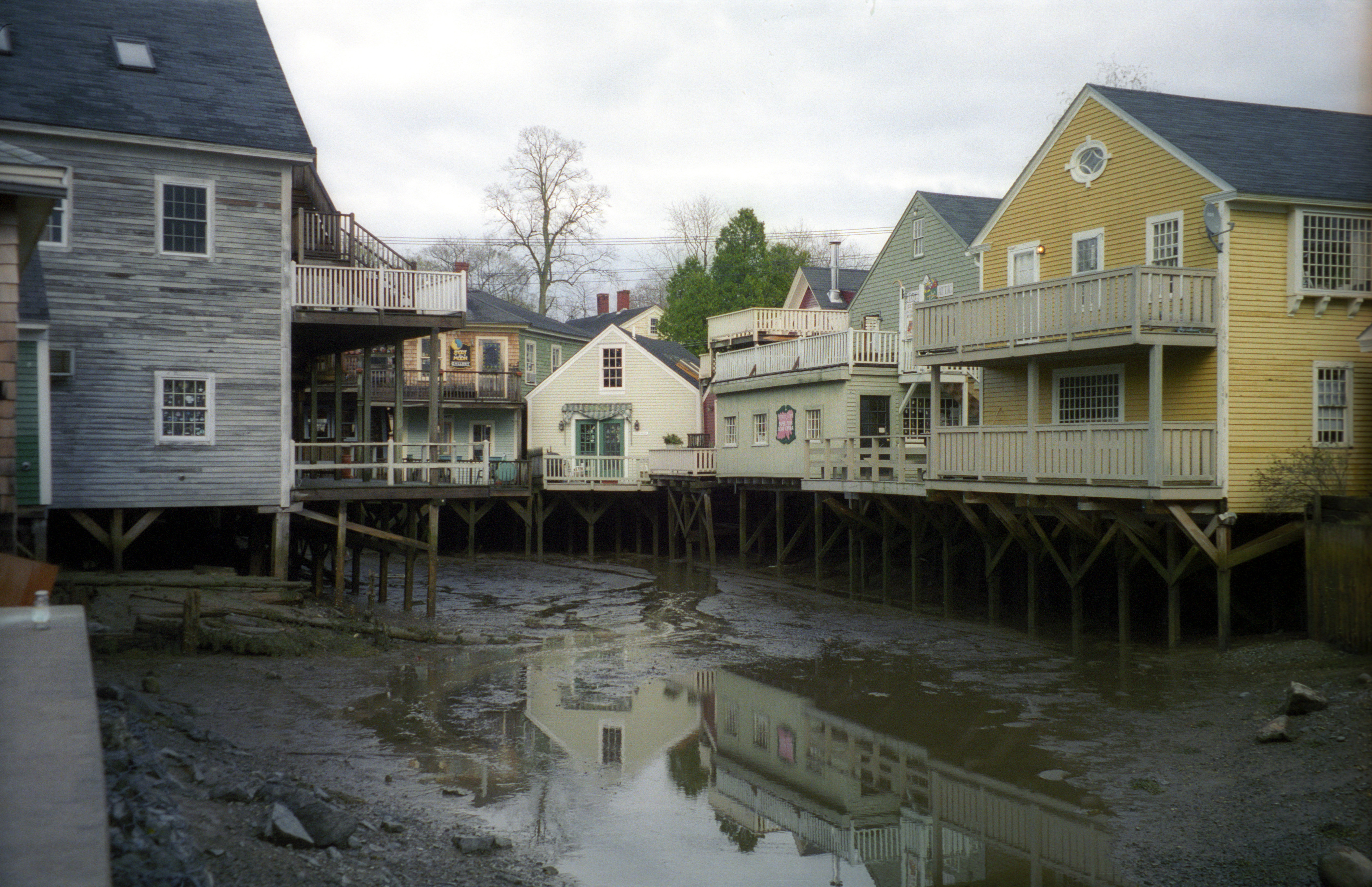 Kennebunkport, Maine, USA